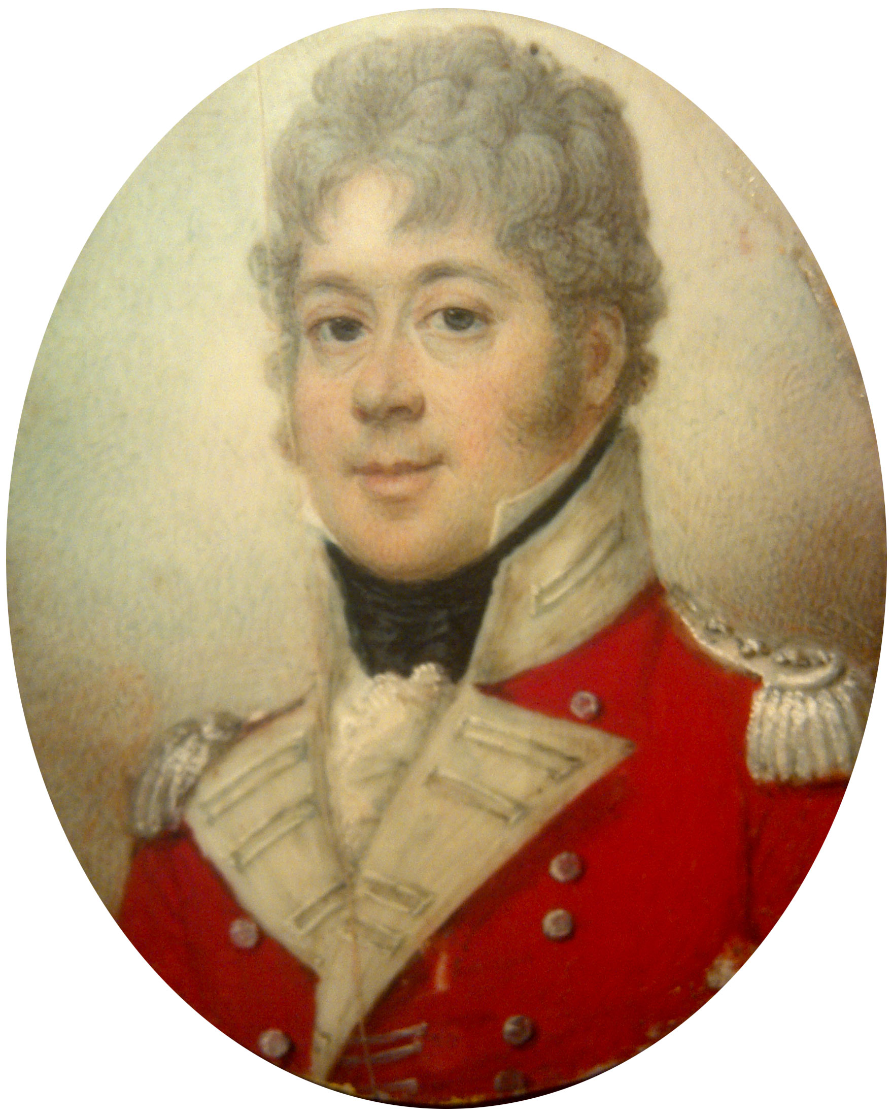 Portrait of Colonel Hugh Henry Mitchell, CB, (9 June 1770 – 20 April 1817), see also Hugh Henry Mitchell (1770-1817))